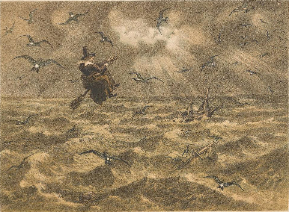 "Mother Carey and her chickens" by John Gerrard Keulemans, 1877. Frame removed by cropping.